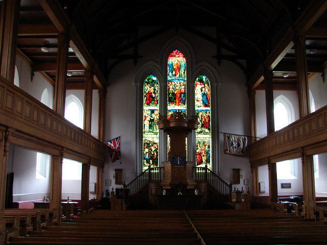 Langholm Parish Church Interior. The large interior includes the big Jacobean pulpit, stained glass and (left below pulpit)the 1795 bell from the Auld Parish Kirk. 989767